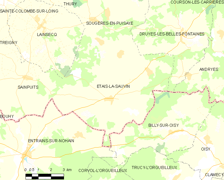 Map of French municipality Étais-la-Sauvin